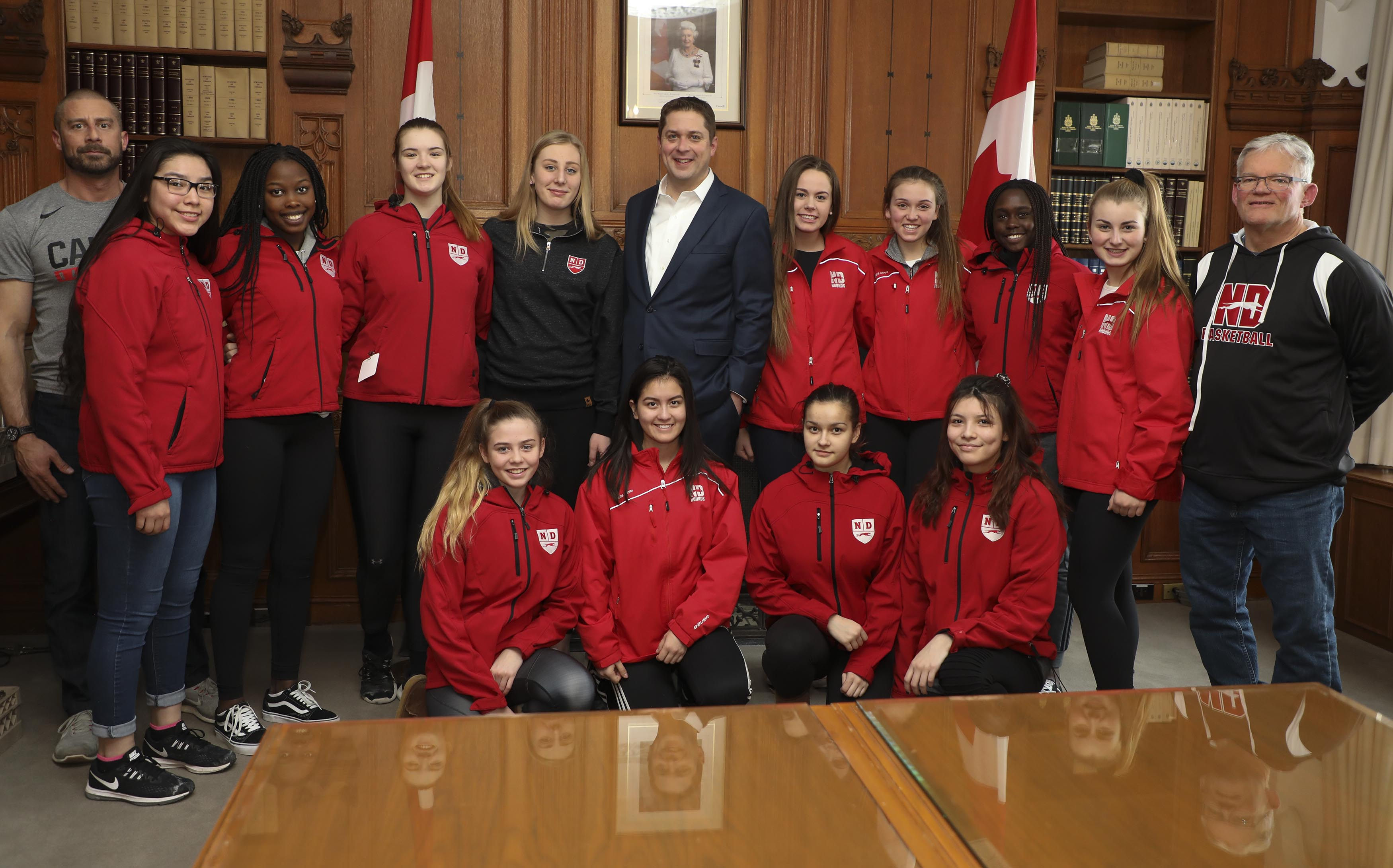 Good luck to the women of the Athol Murray College of Notre Dame in your tournament! Go hounds!